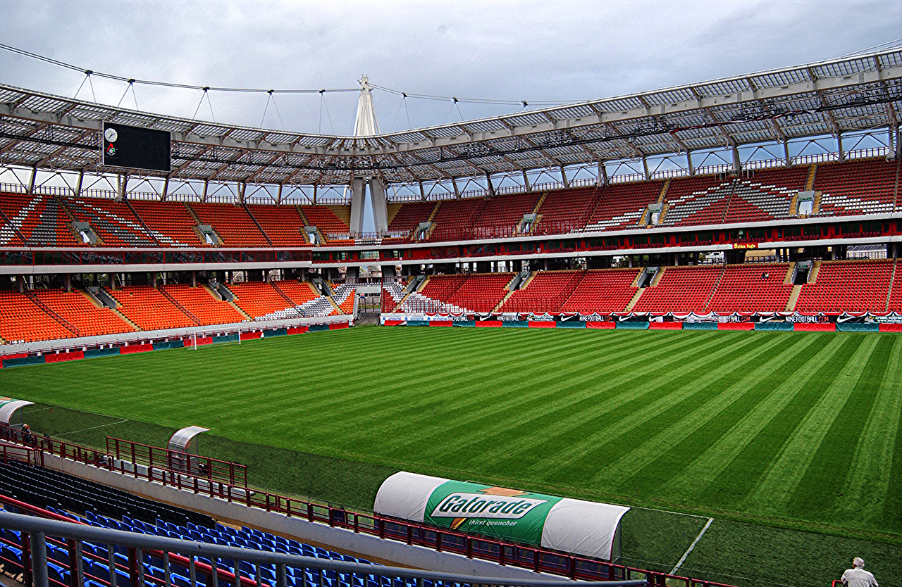 Lokomotiv Stadium in Moscow, Russia